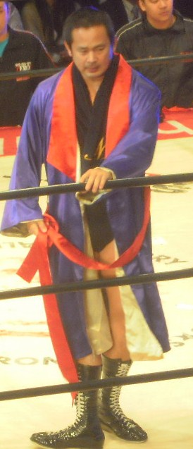 Japanese professional wrestler Osamu Nishimura. Jan 8 2012 Bull Nakano Final Event. TOKYO DOME CITY HALL.